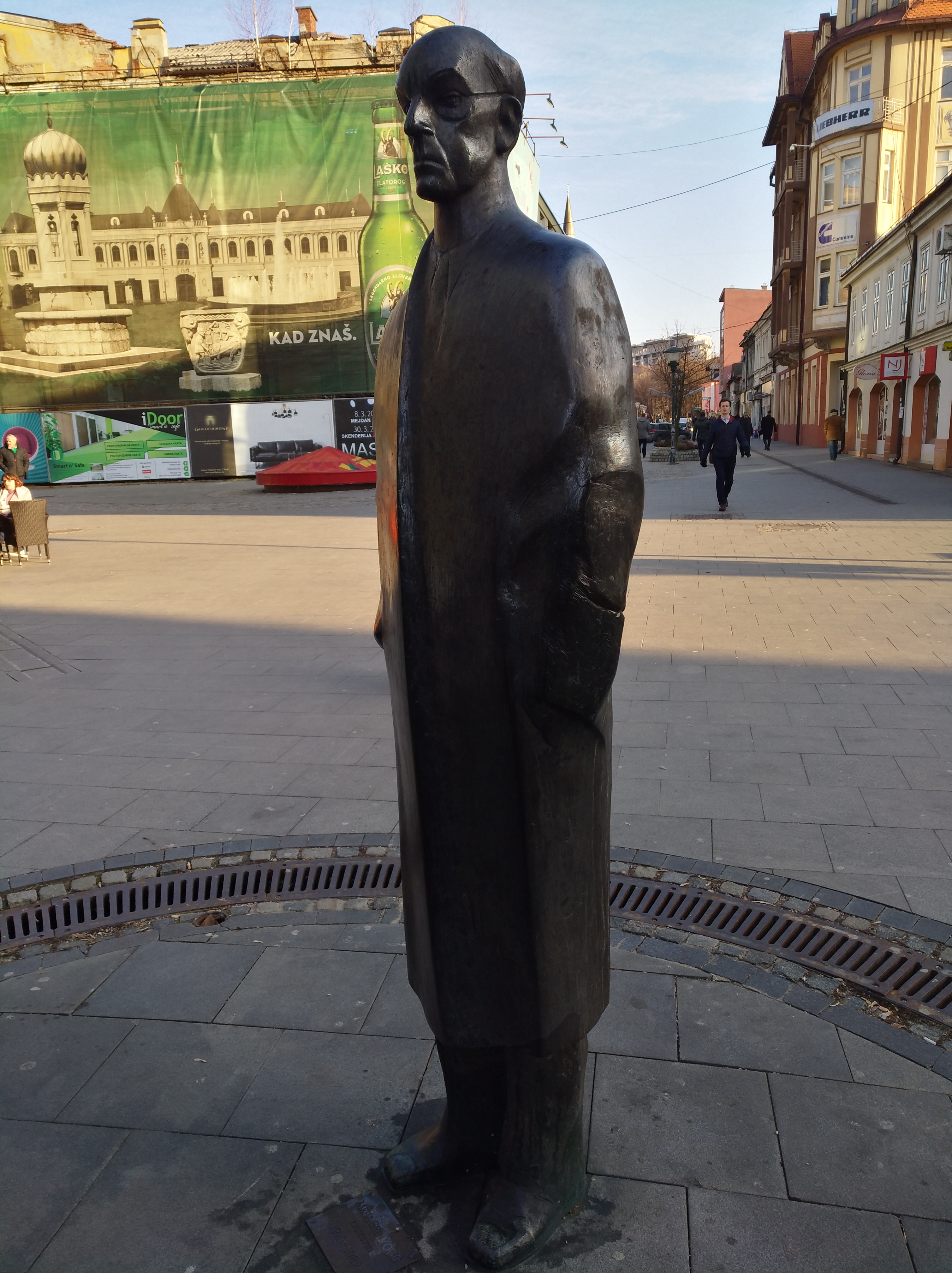 Statue of Meša Selimović, in Tuzla, Bosnia and Herzegovina.